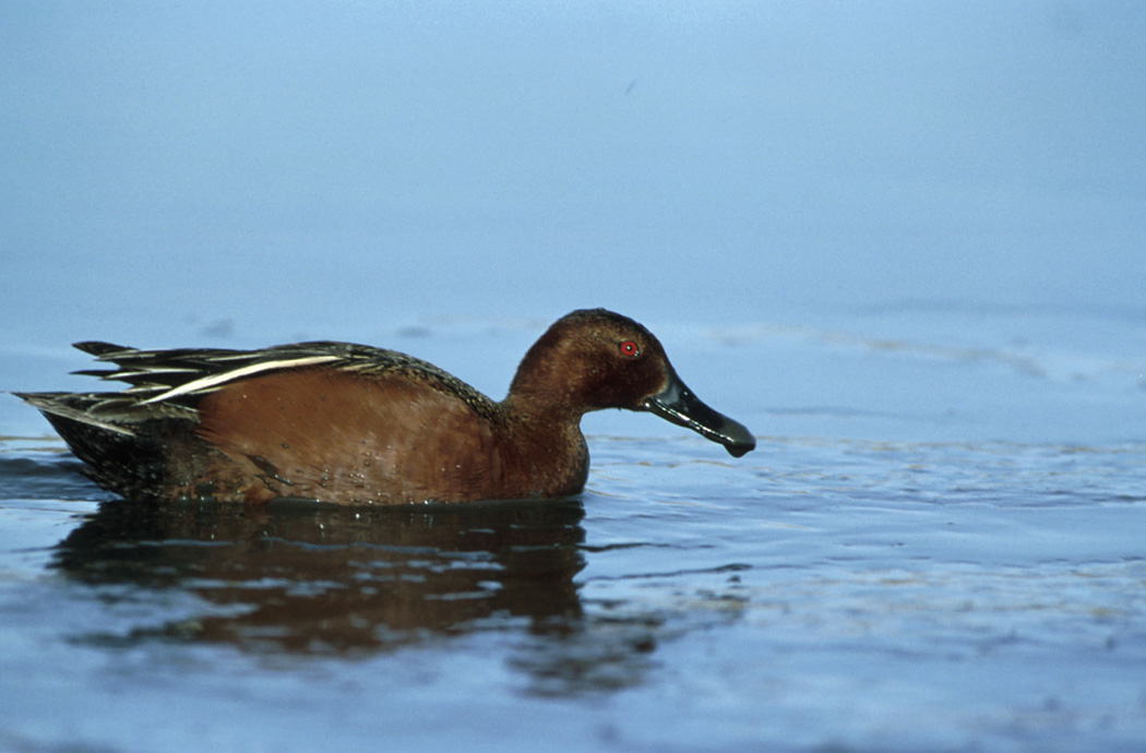 Male Cinnamon Teal (Anas cyanoptera) photographed in the Lower Klamath National Wildlife Refuge